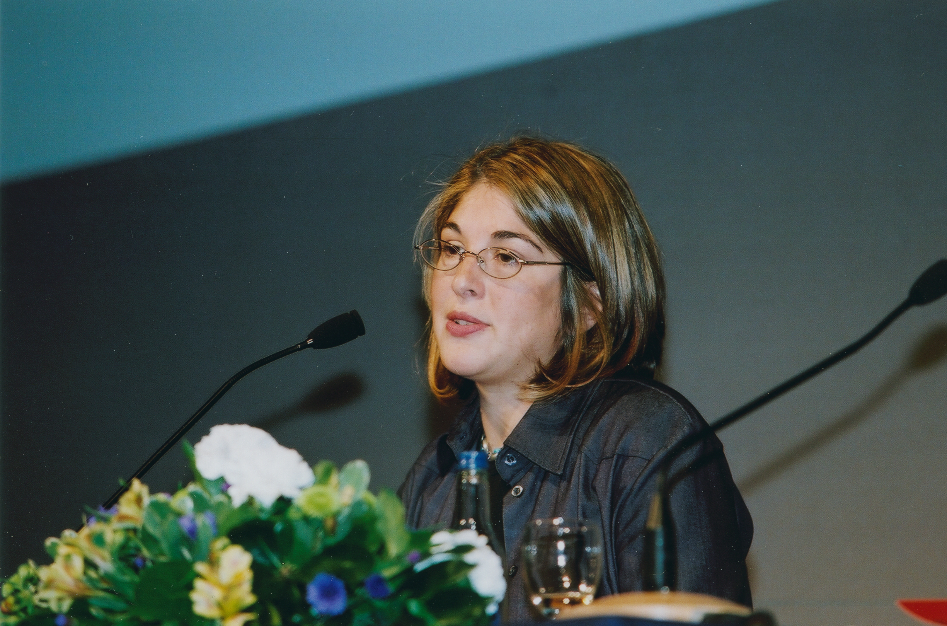 Lecture "Escape from the Global Fortress: the state of the globalisation debate" IMAGELIBRARY/858 Persistent URL